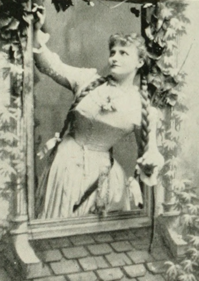 Emma Johanna Antonia Juch